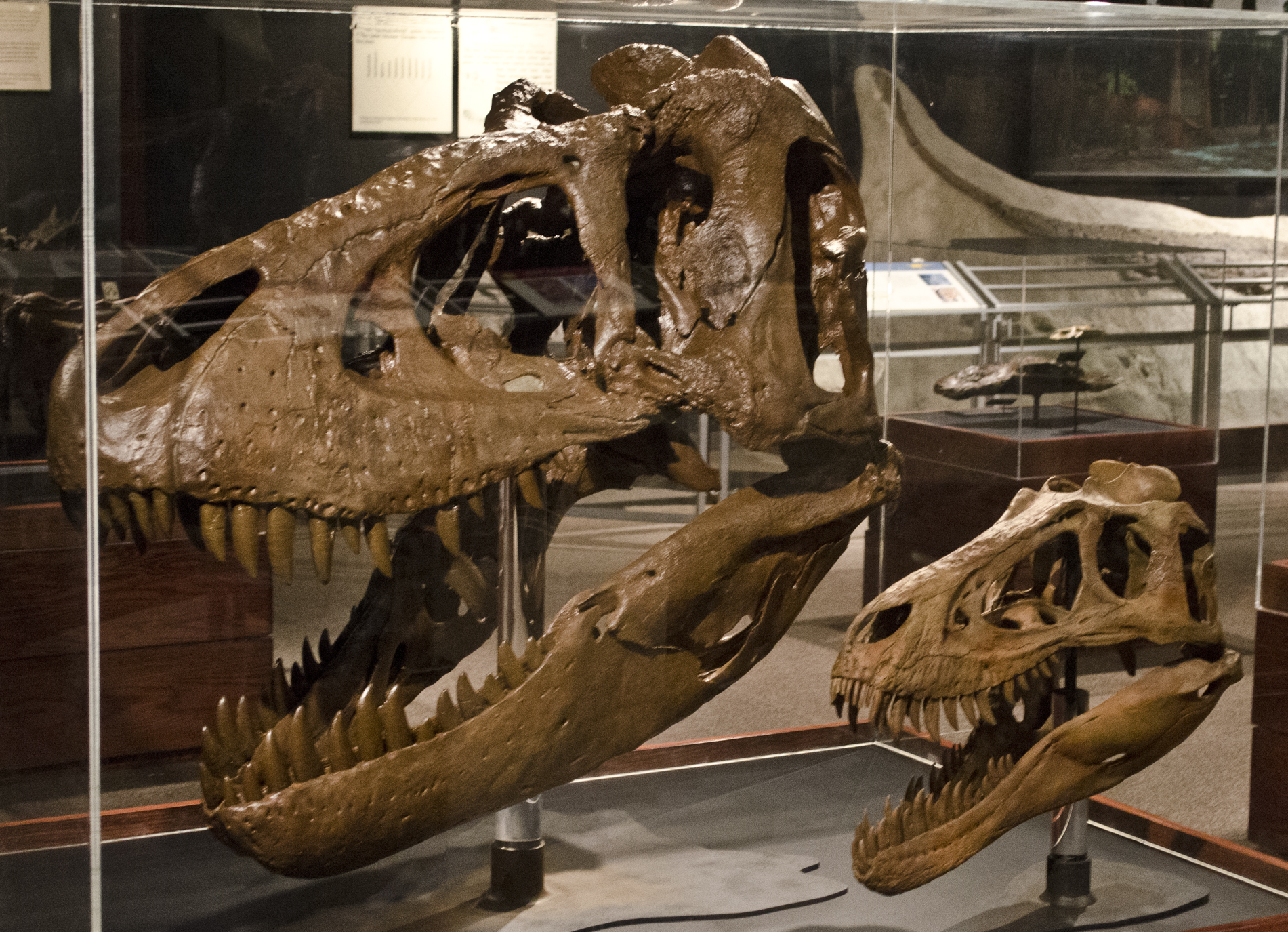 Side view of an adult and juvenile Tyrannosaurus rex skull, on display at the Museum of the Rockies in Bozeman, Montana. (It is not clear where this specimen was collected.) The Tyrannosaurus rex ("king lizard") lived in western North America 67 to 65.5 million years ago. The T. rex was the largest tyrannosaurid that ever lived: 40 feet in length, 13 feet tall at the hips, and 7.5 tons in weight.